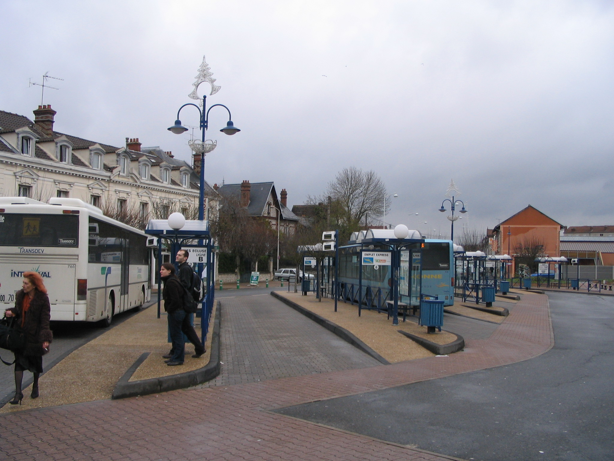 The bus station of Montereau, in Montereau-Fault-Yonne, Seine-et-Marne, France.